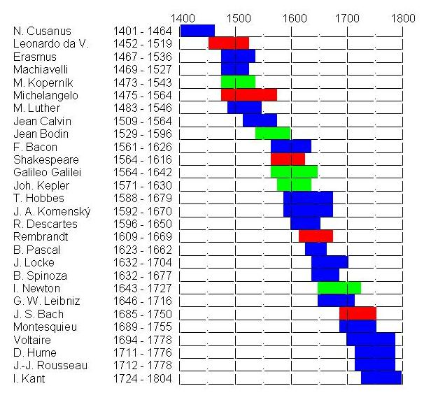 Chronology of early modern philosophy.)